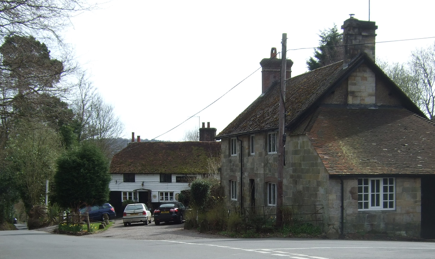 The Hatch Inn at Colemans Hatch, Ashdown Forest, East Sussex.